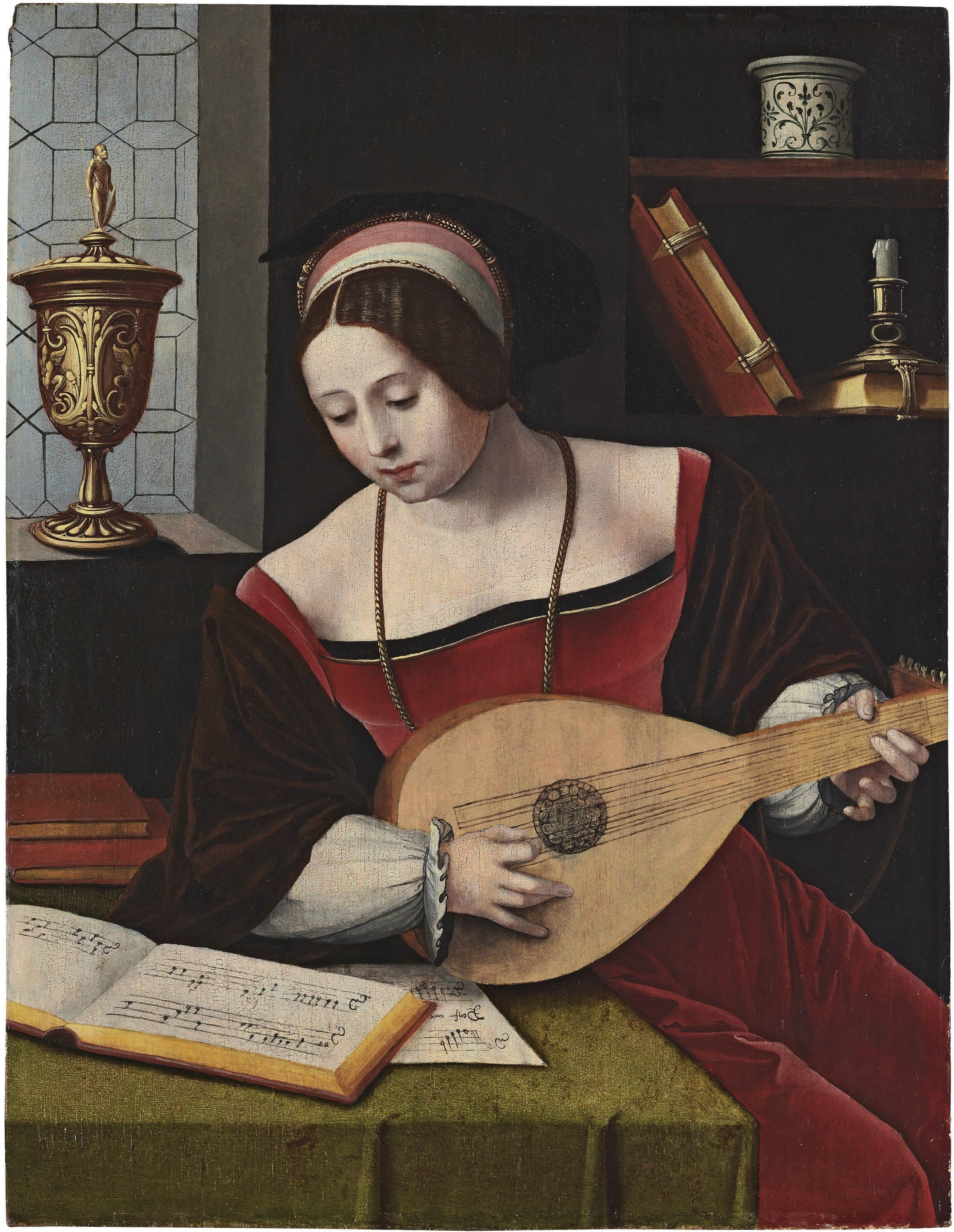 The costume of the sitter and the articulation of the backgrounds vary in all three treatments and in this case the right side is enriched by the inclusion of books, a porcelain jar and a candle in a recess. Their presence, combined with the ointment jar and the musical theme, serve to emphasize the underlying vanitas meaning of the subject - the transience of earthly pleasures and beauty.